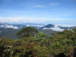 The summit from the false summit, before going down the valley.